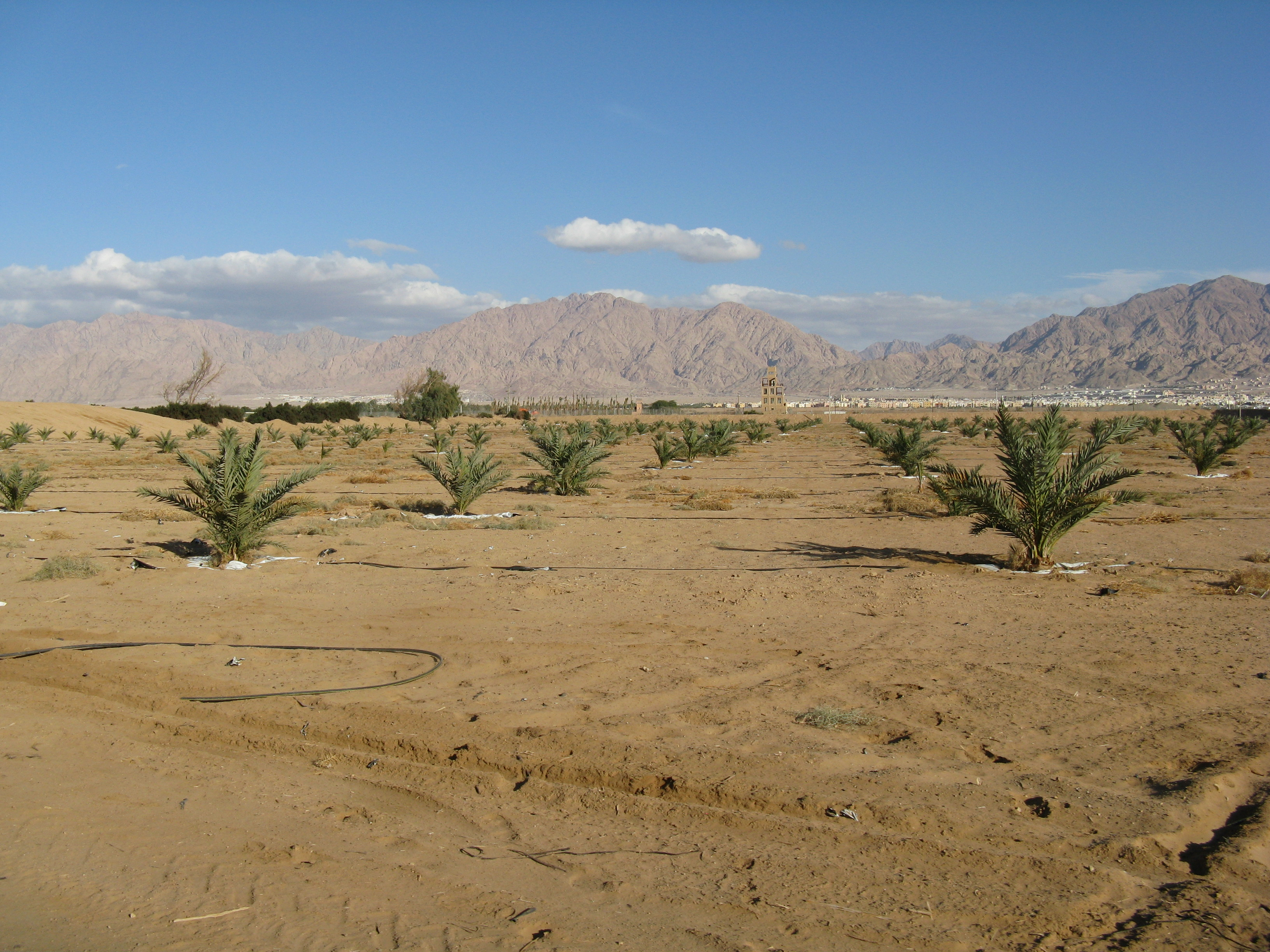 שיחים בארץ המדבר .